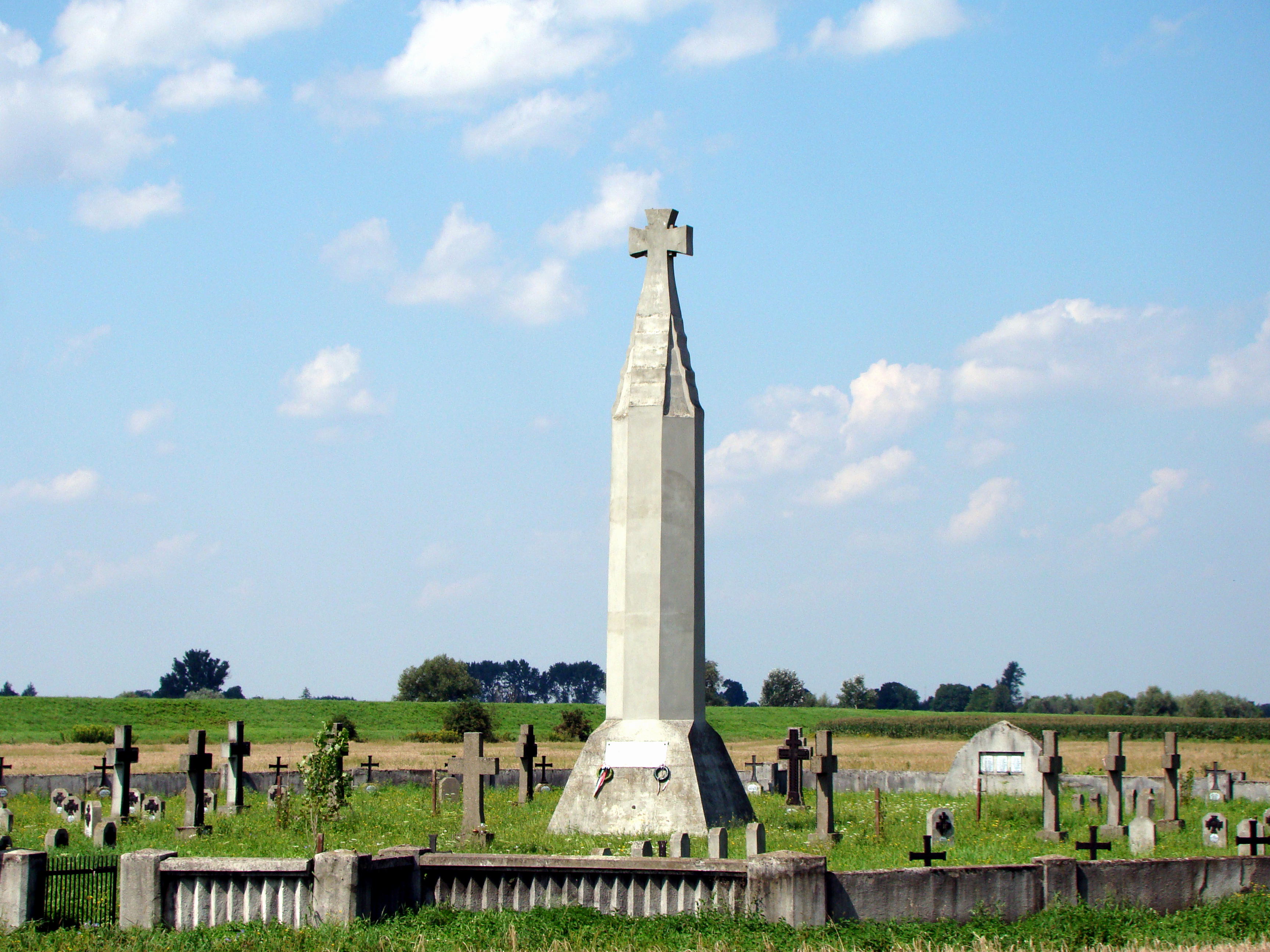 I world war cemetery number 258 in Biskupice Radłowskie